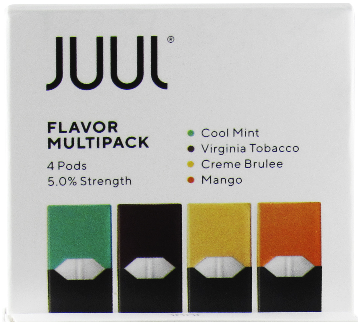 A flavour multipack for the Juul vaping device. Sweet-flavored electronic cigarettes promote youth vaping.